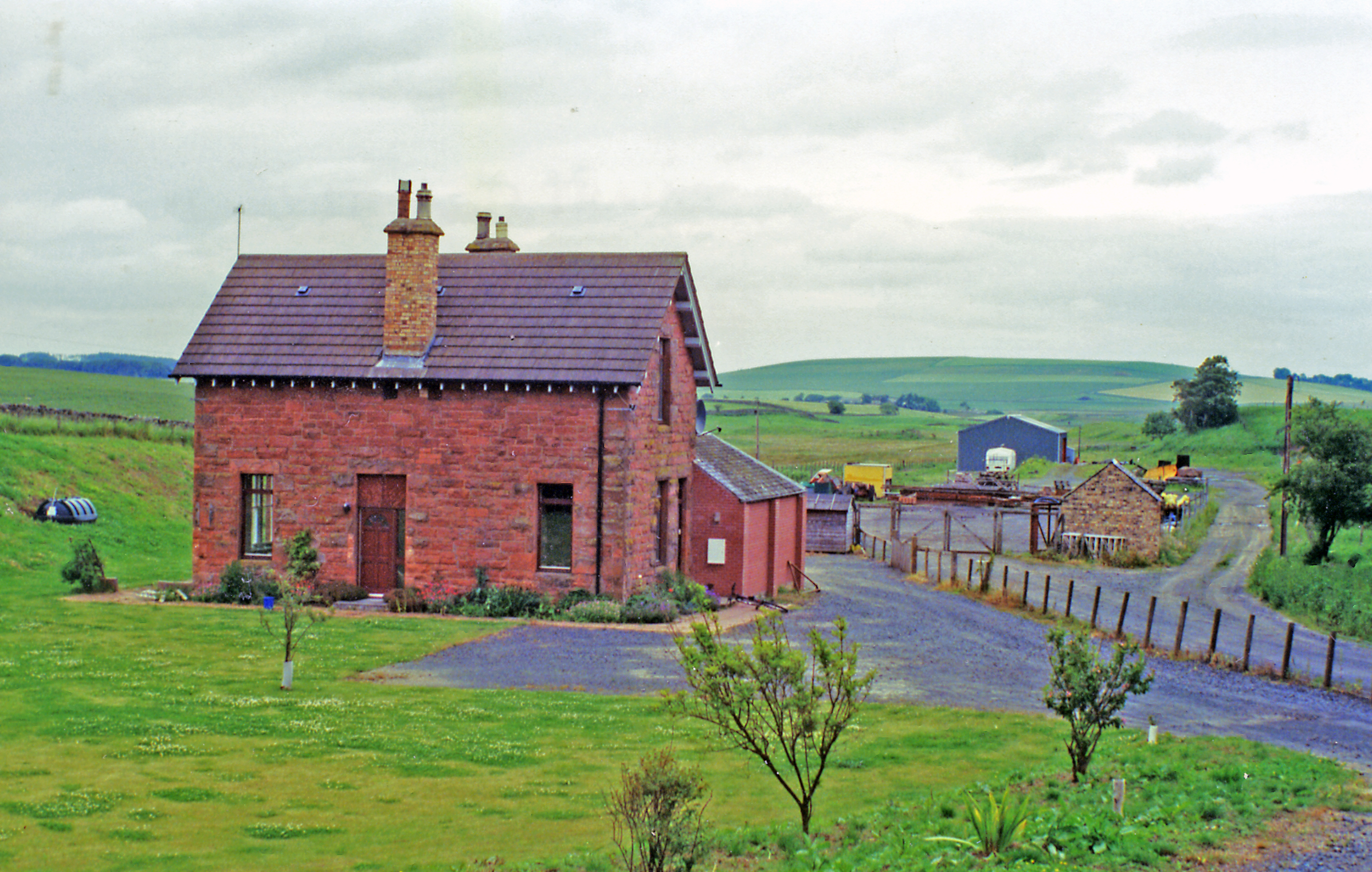 Gordon station (site/remains), 1997. View NE, towards Greenlaw, Duns and Reston: ex-NBR Reston - Duns - Greenlaw - St Boswells line. After the Great Floods of 12/8/48, Gordon lost its passenger services, which ceased Duns - St Boswells, but after some months freight traffic was restored until complete closure came about from 19/7/65: Reston - Duns lost passenger services from 10/9/51, goods from 7/11/66.`The hill in the distance is Dirrington Great Law (1,309 ft.).